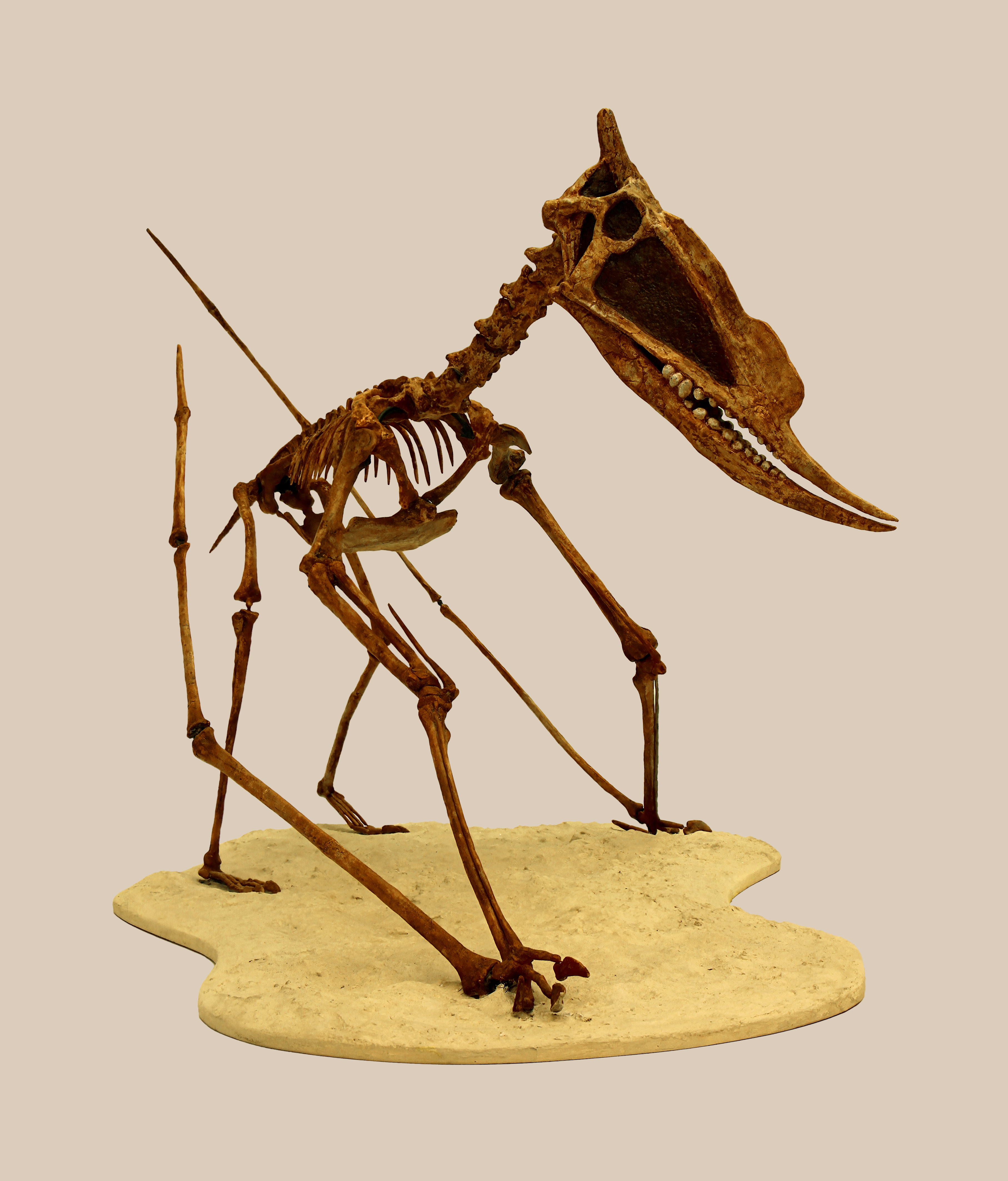 Reconstruction of skeleton; Lower Cretaceous (120 mio. Years); Jungar Basin, China.